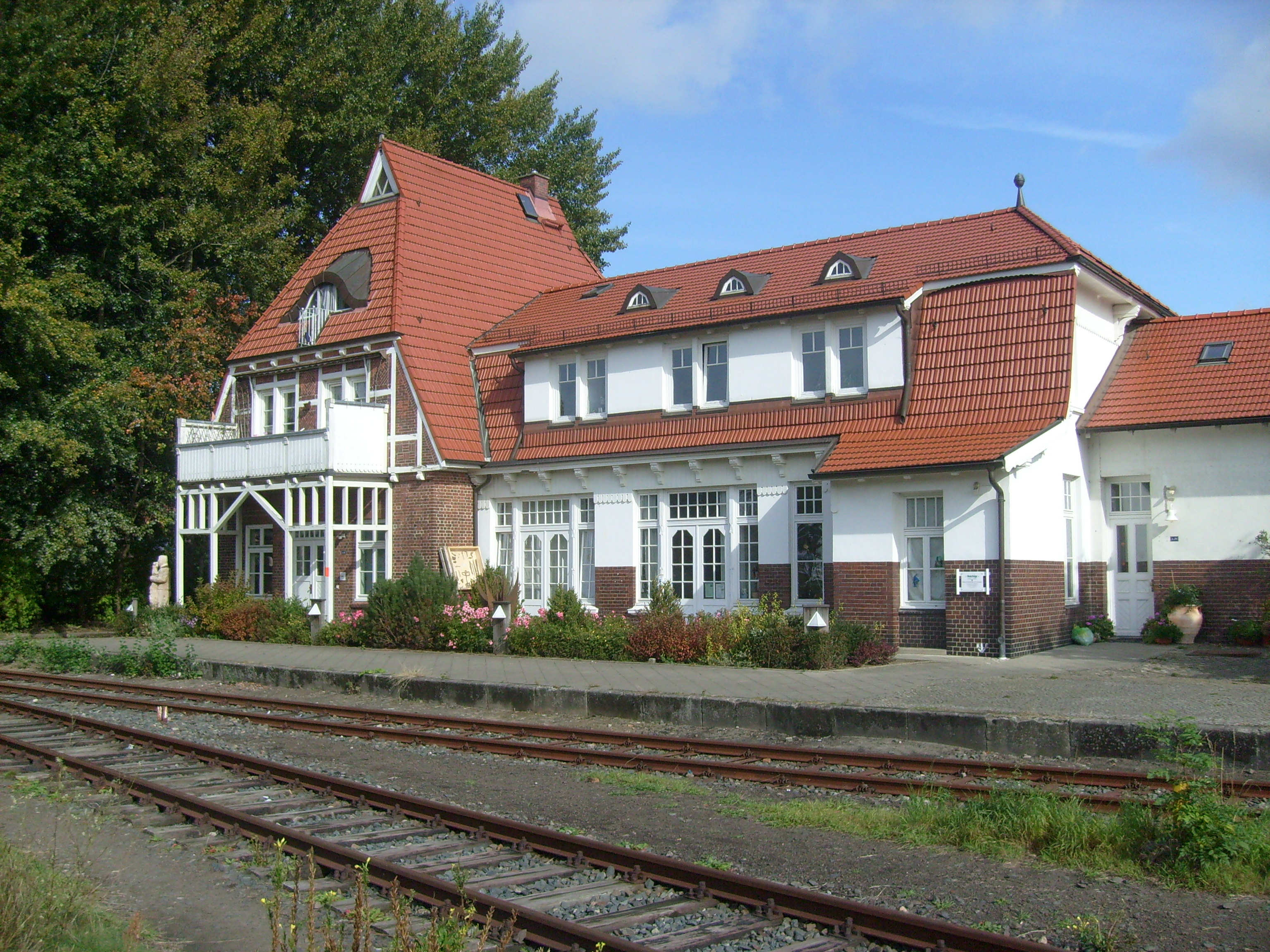 Bergedorf Southstation: former Station for the trains to Geesthacht. No regular connections to Geesthacht anymore, but all two months this is the last station of a historical steam train. The building now is used for offices and as the studio of an artist.